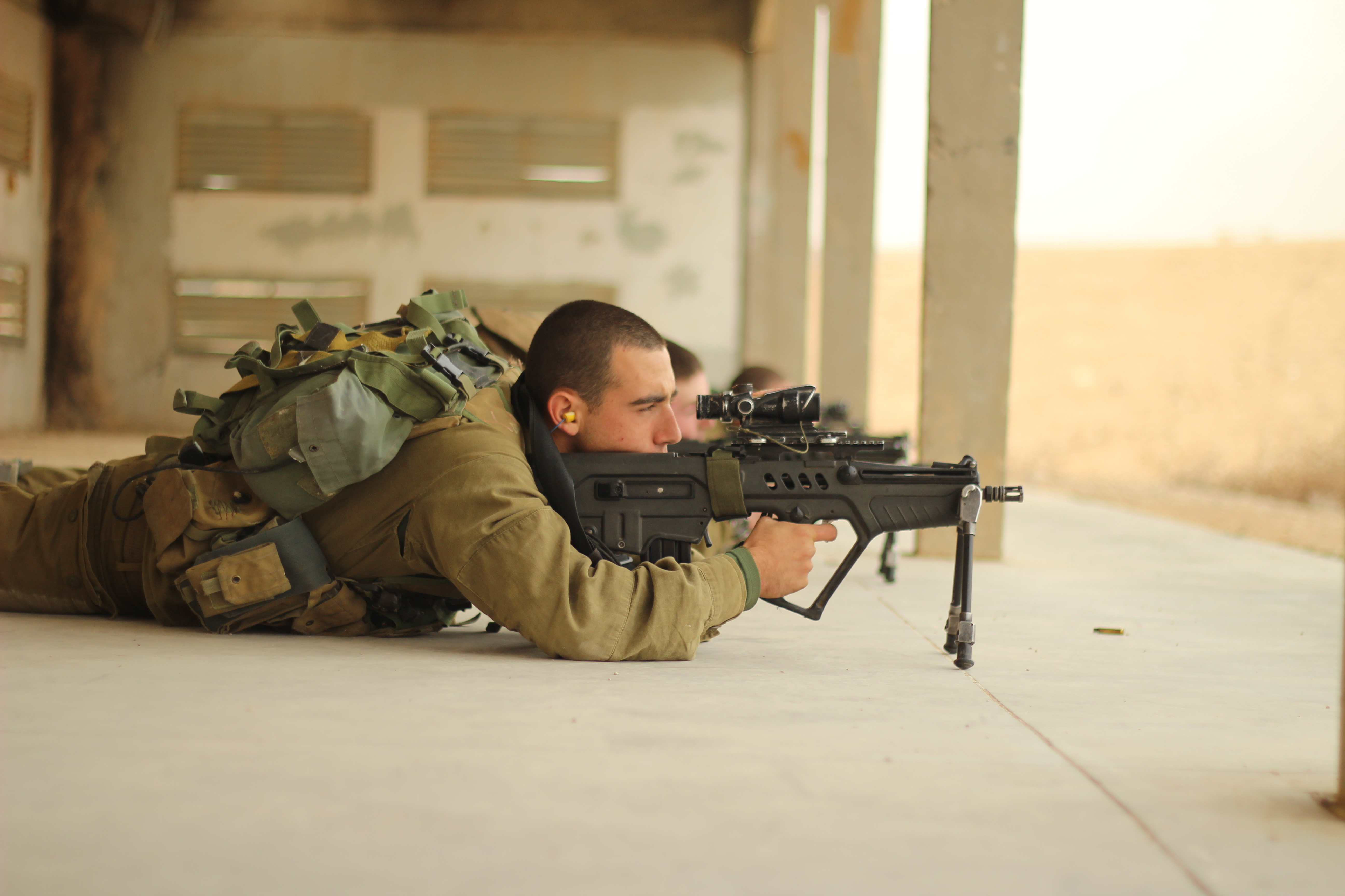 December 4, 2012 Nahal's Special Forces conducted a firing drill in southern Israel with a range of different weapons. The firing course was part of their advanced training where they learn to specialize in a certain firearm. Photo by Zev Marmorstein, IDF Spokesperson's Unit For more from the IDF